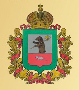 Coat of Arms of Myshkinsky rayon, Yaroslavl Region, Russia